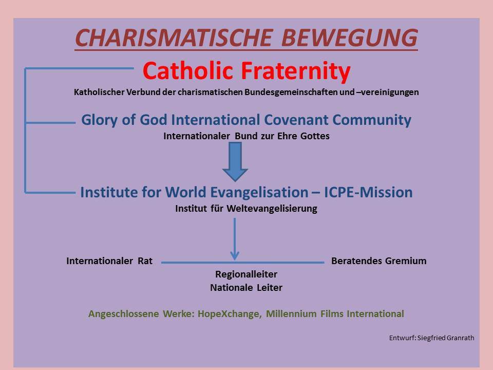 ICPE - Institute for World Evangelisation